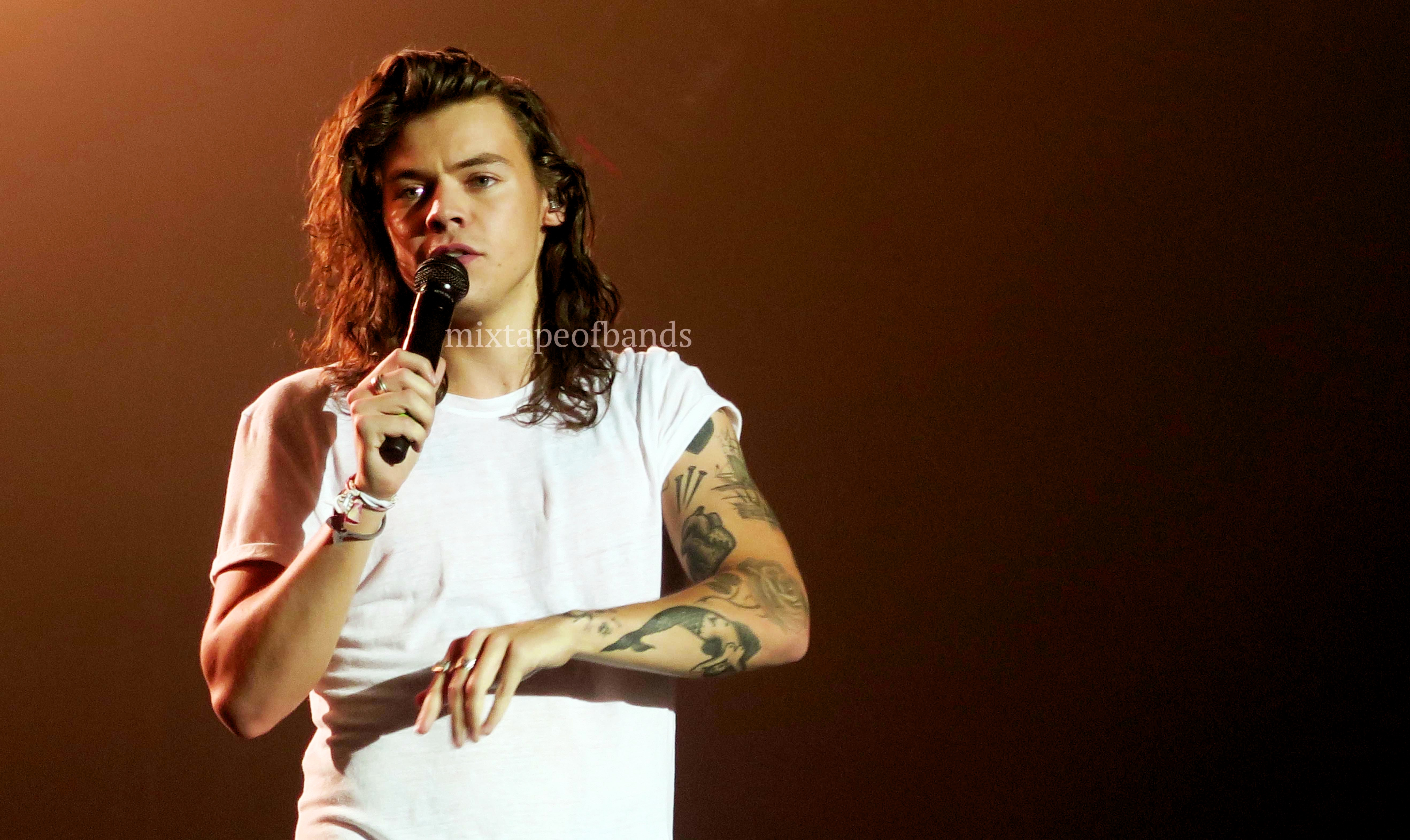 Harry Styles at the On The Road Again Tour on 26th October 2015 in Newcastle, England.